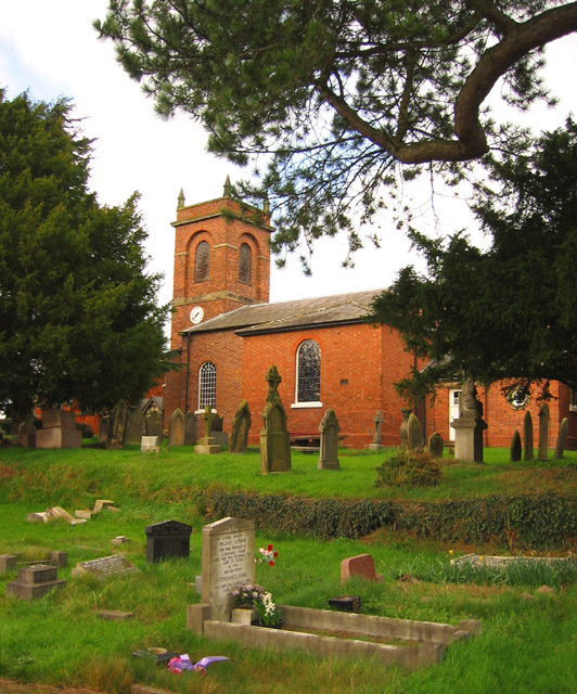 St Mary the Virgin parish church, Wistaston, Cheshire, seen from the southeast